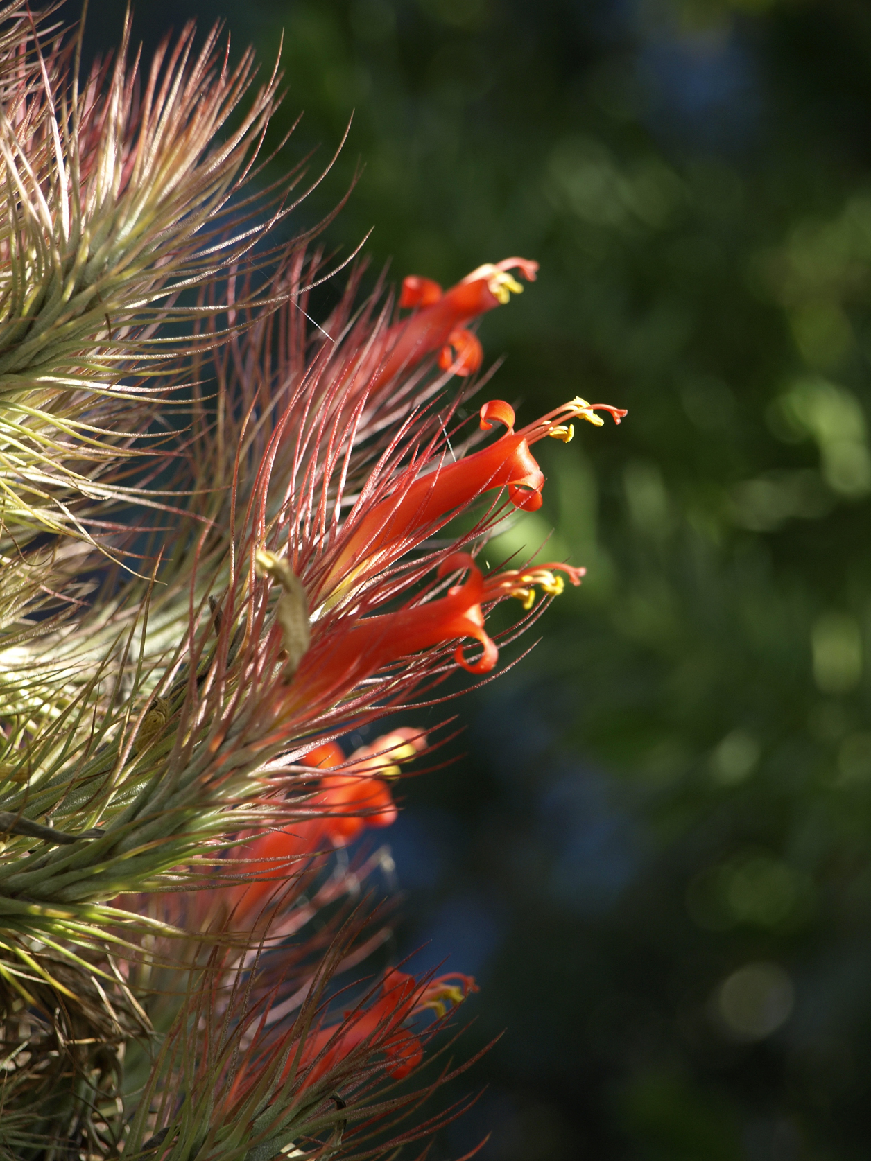 South Miami, Florida, USA.